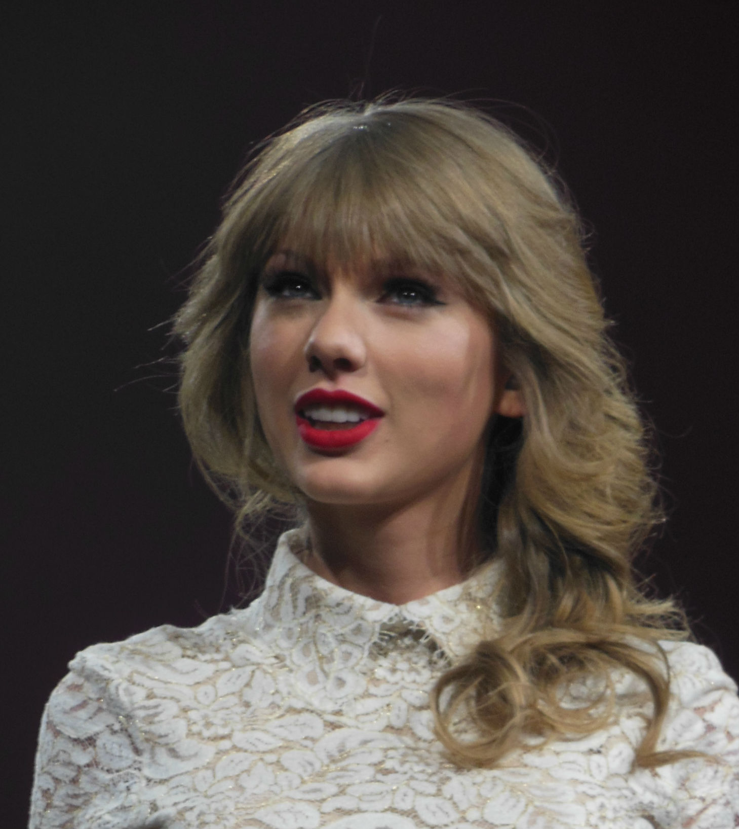 Taylor Swift RED tour 2013